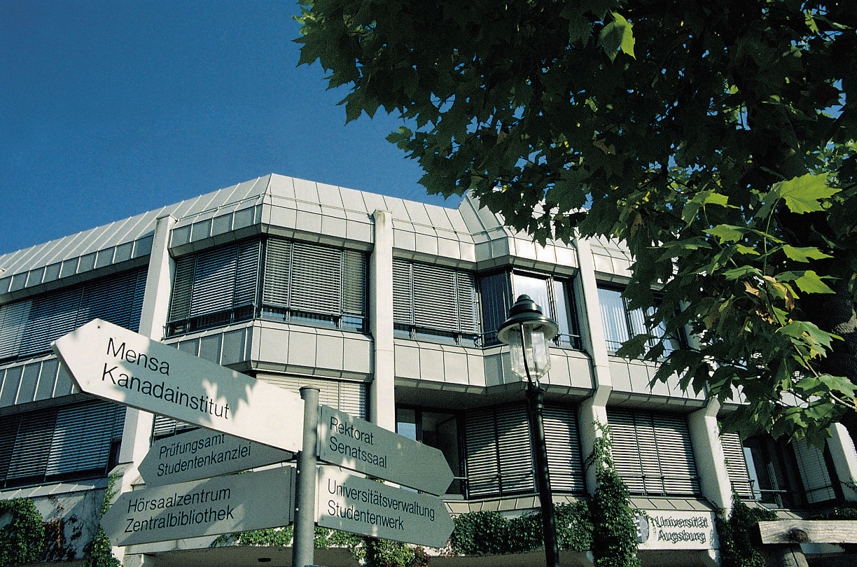 Administration building